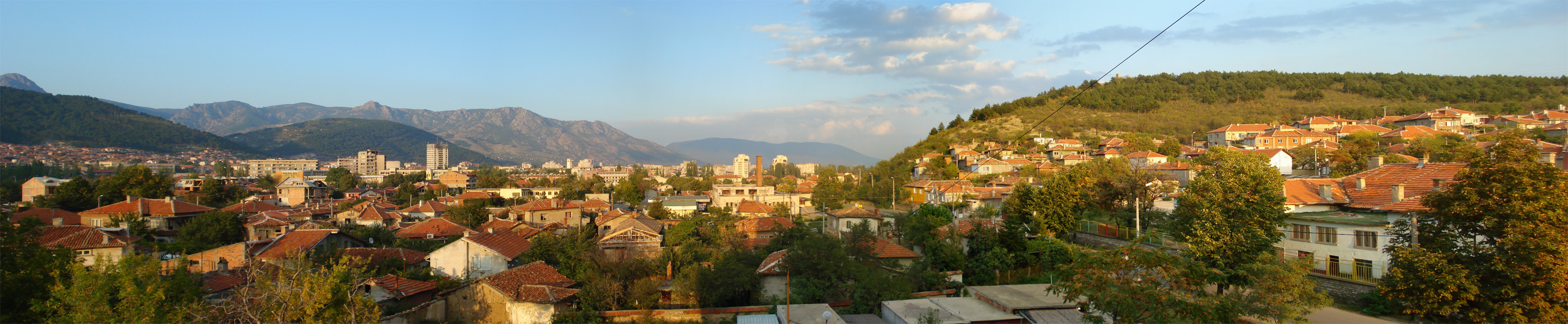 Sliven town panorama